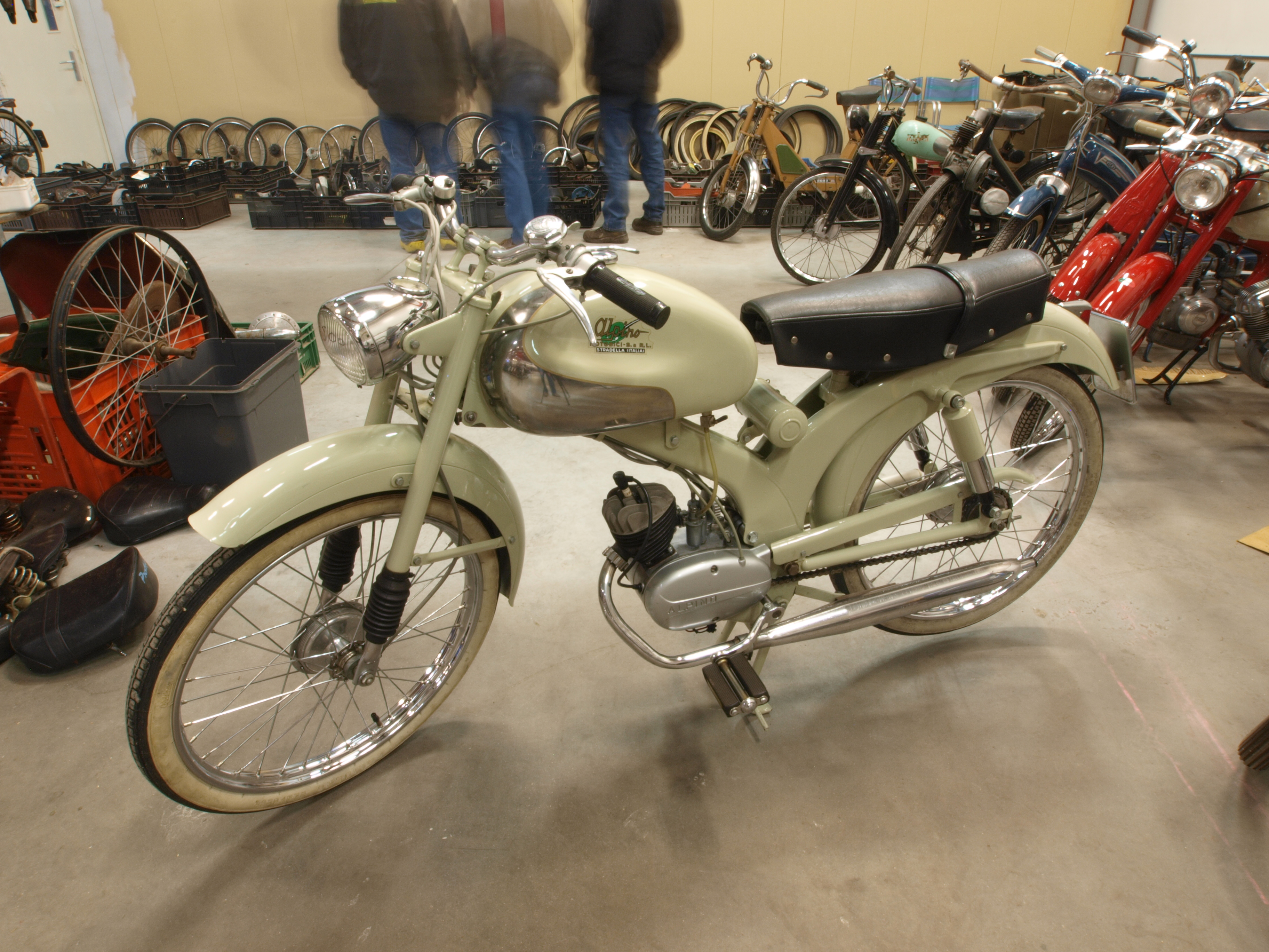 Photographed at the Bromfietsshow Bollenstreek 2010, The Netherlands.